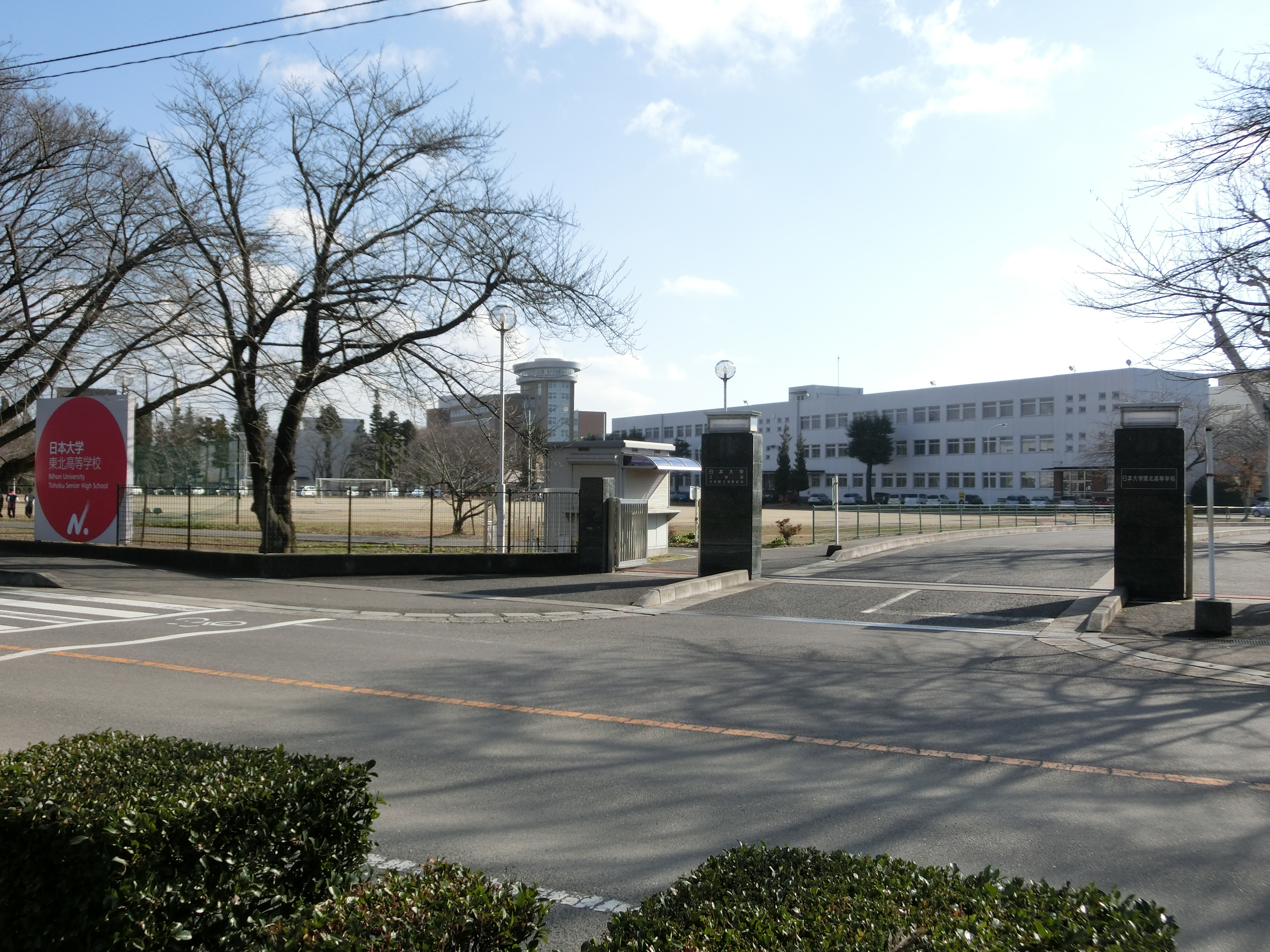 Nihon University Tohoku High School